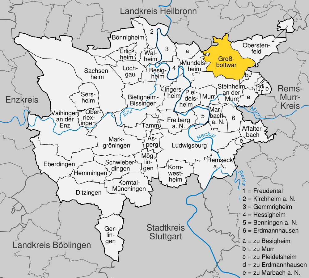 position of Großbottwar within distict of Ludwigsburg, Baden-Württemberg, Germany